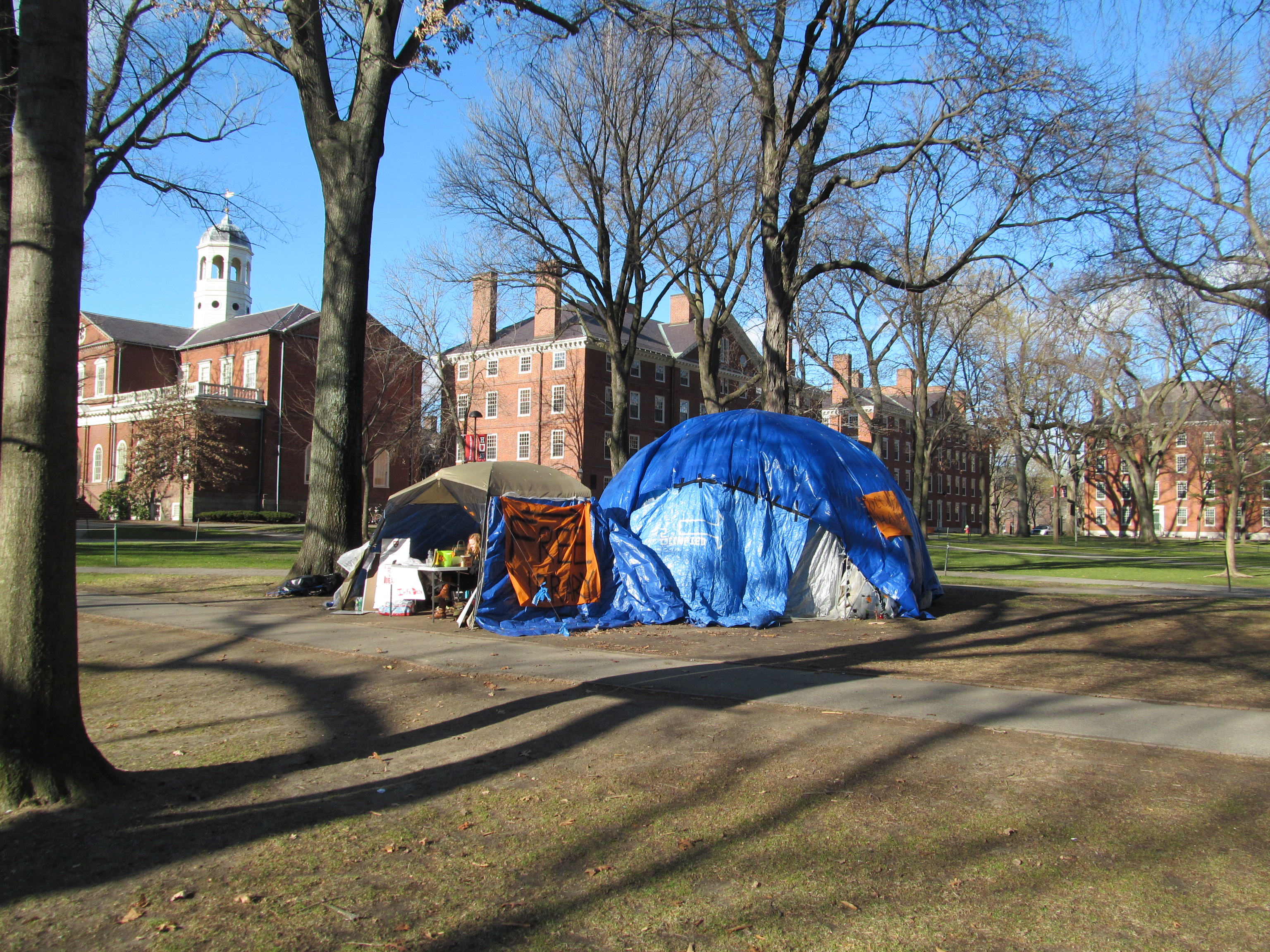 Old Yard, Harvard University, Cambridge Massachusetts